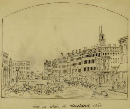 View in Main St., Cleveland, Ohio (circa 1856-1860) Ink on paper; 4 3/4 x 6 inches, titled in the hand of the artist